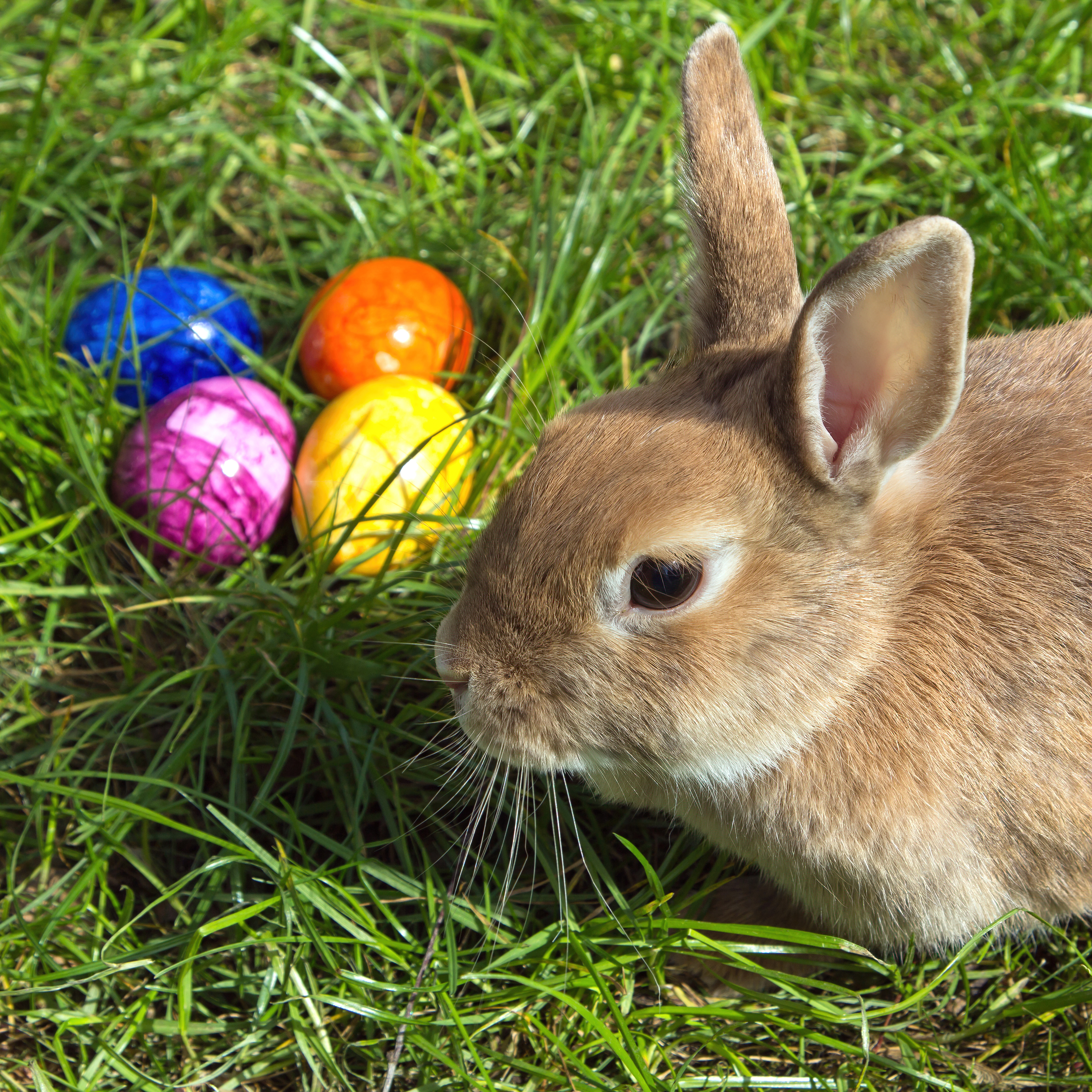 Easterbunny, reenacted by rabbit Knirps